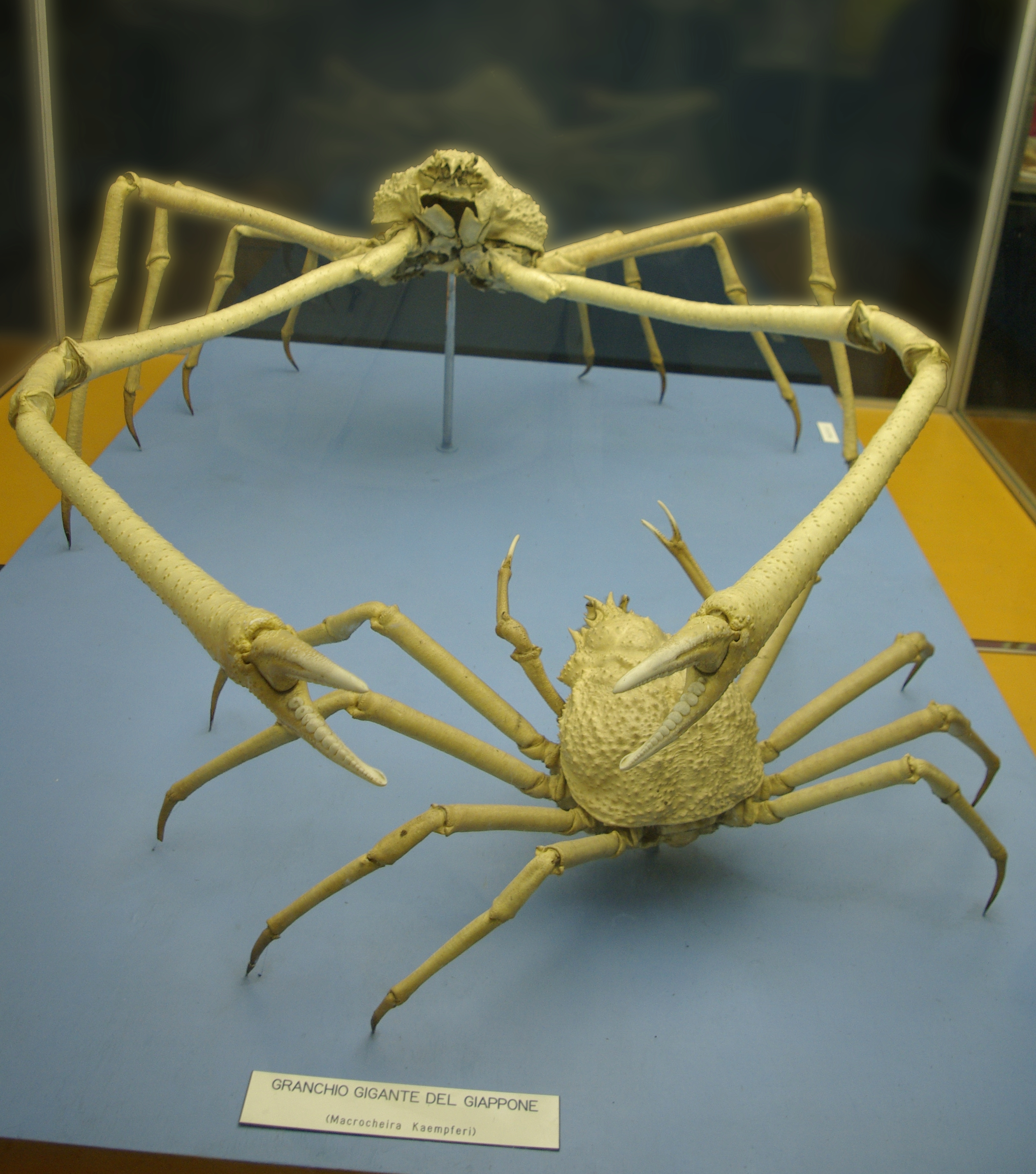 Macrocheira kaempferi